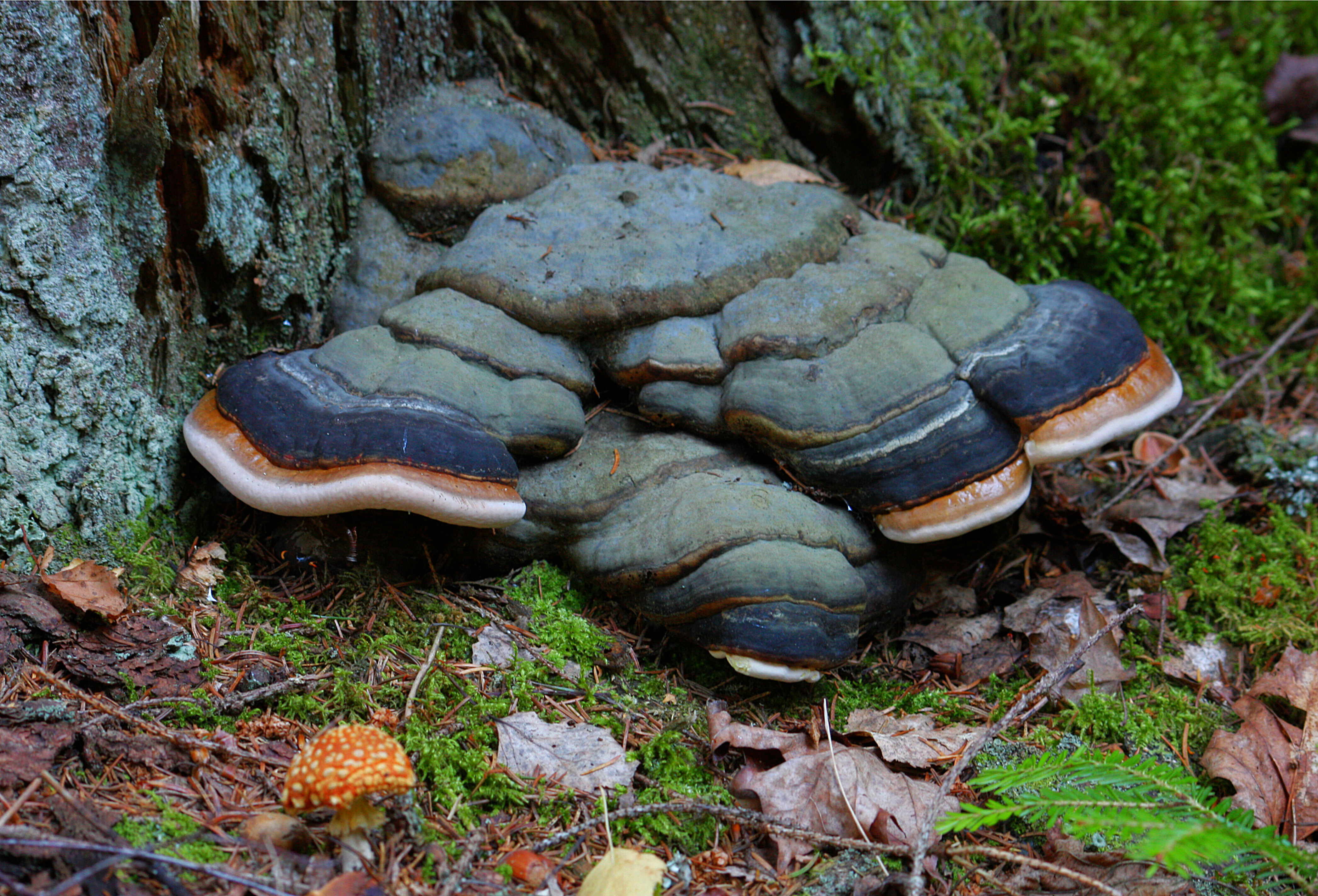 Fomitopsis pinicola is a polypore mushroom of the genus Fomitopsis. This species is common throughout the temperate Northern hemisphere.Found in mixed forest in Slovakia.